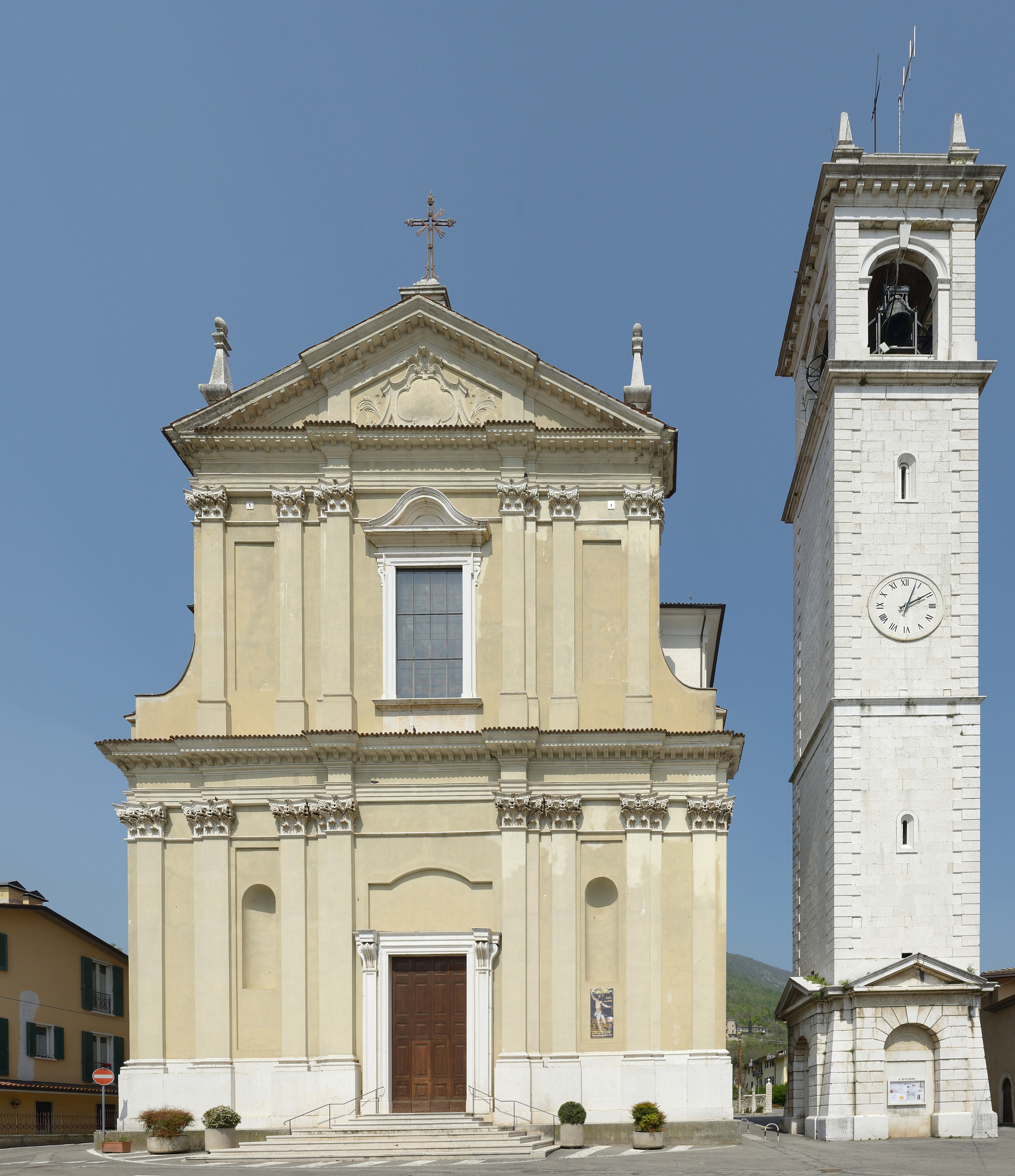 Parish church of Botticino Botticino Mattina.